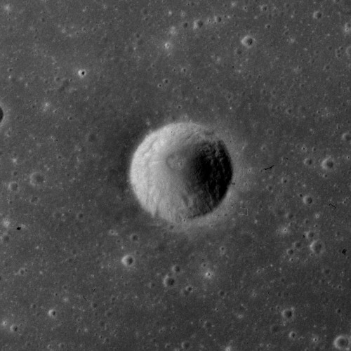 Deseilligny, Mare Serenitatis, on the moon. Camera Altitude is 107 km, Sun Elevation is 39°.